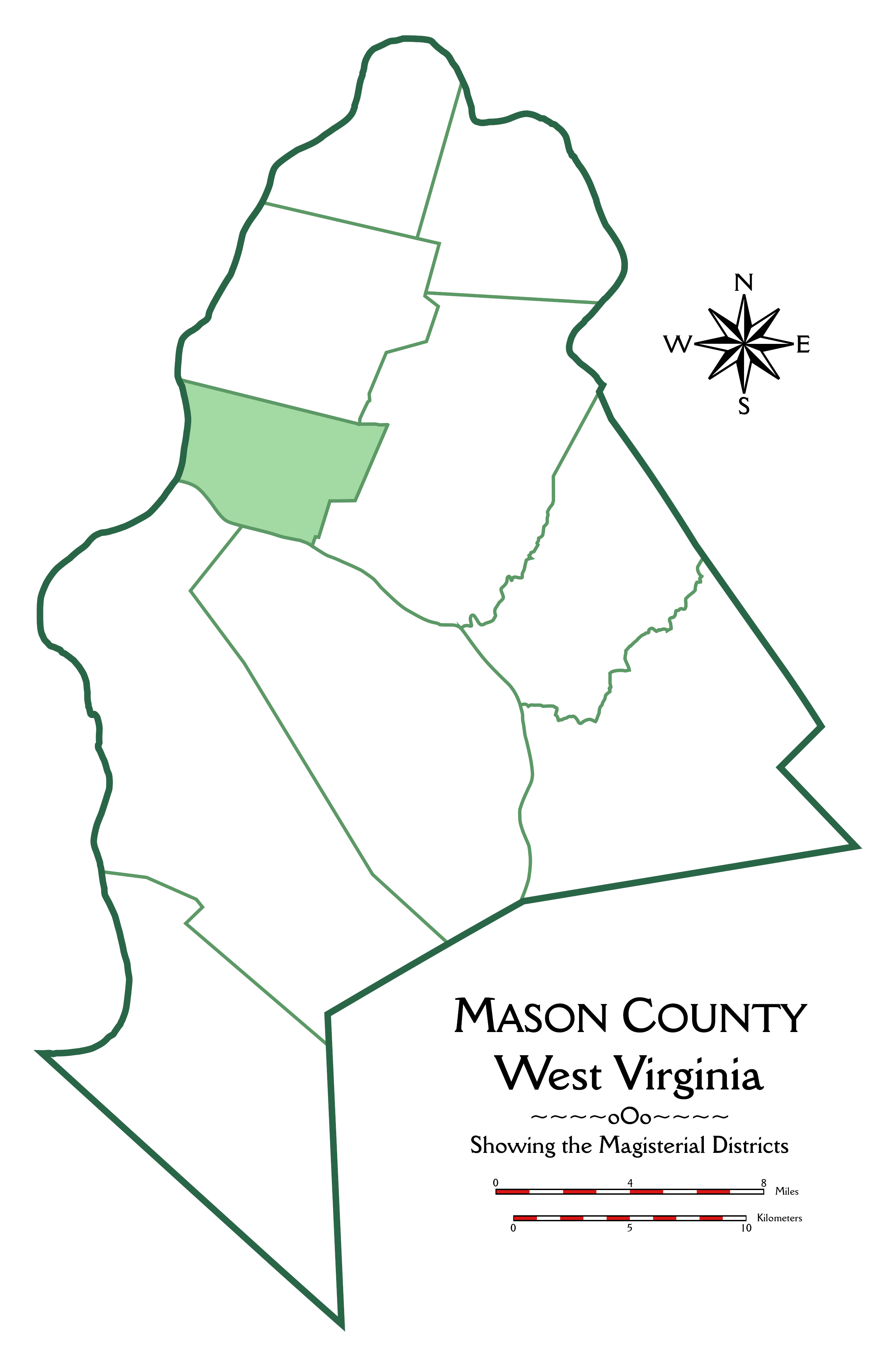 This is an outline map of Mason County, West Virginia, showing the boundaries of the magisterial districts. Lewis District is highlighted.